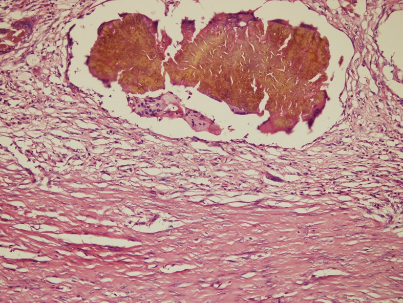 Haematoxylin and eosin x 40.